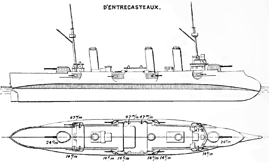 Rough sketch of the French protected cruiser D'Entrecasteaux.